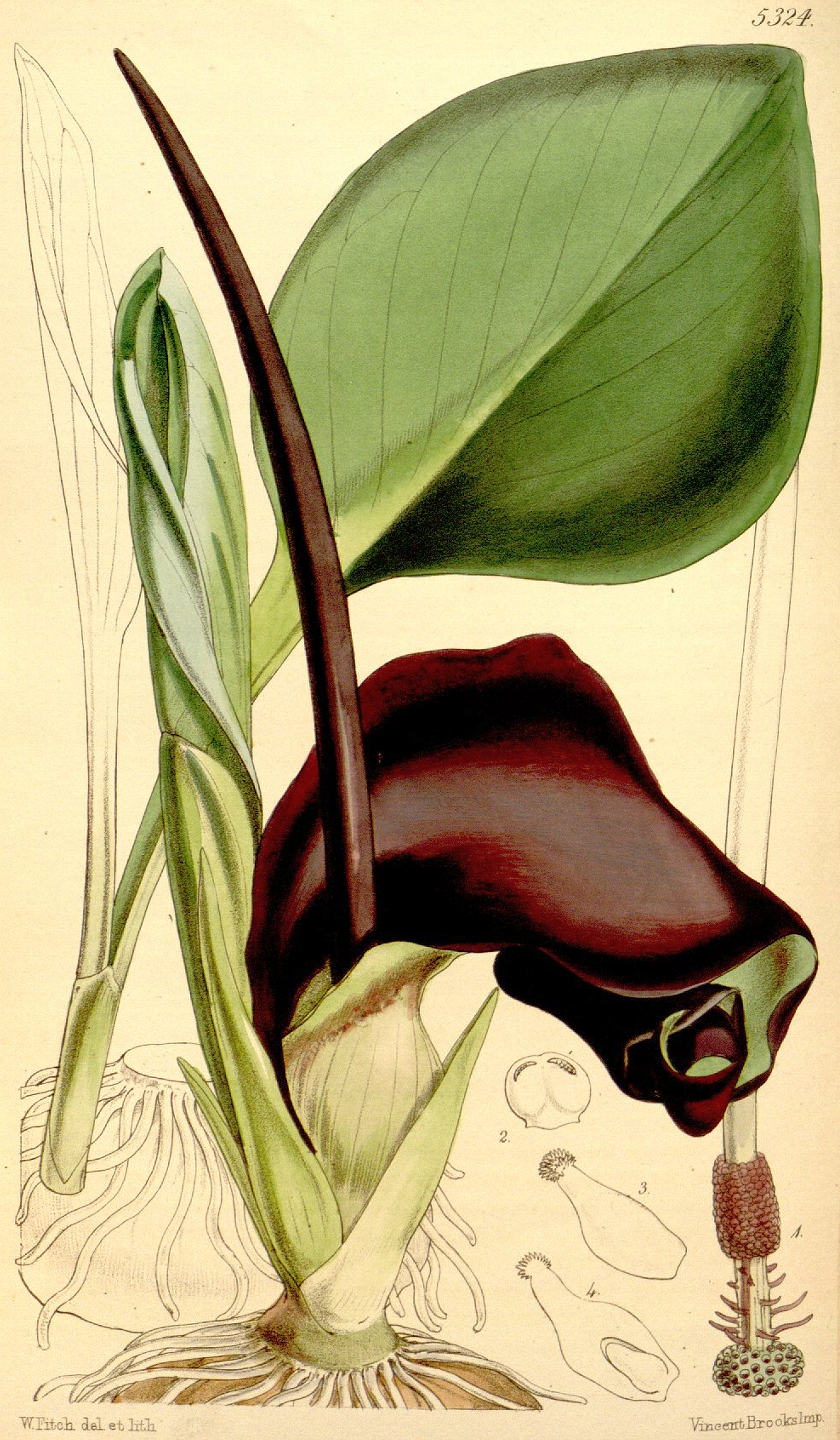 Biarum pyrami botanical drawing